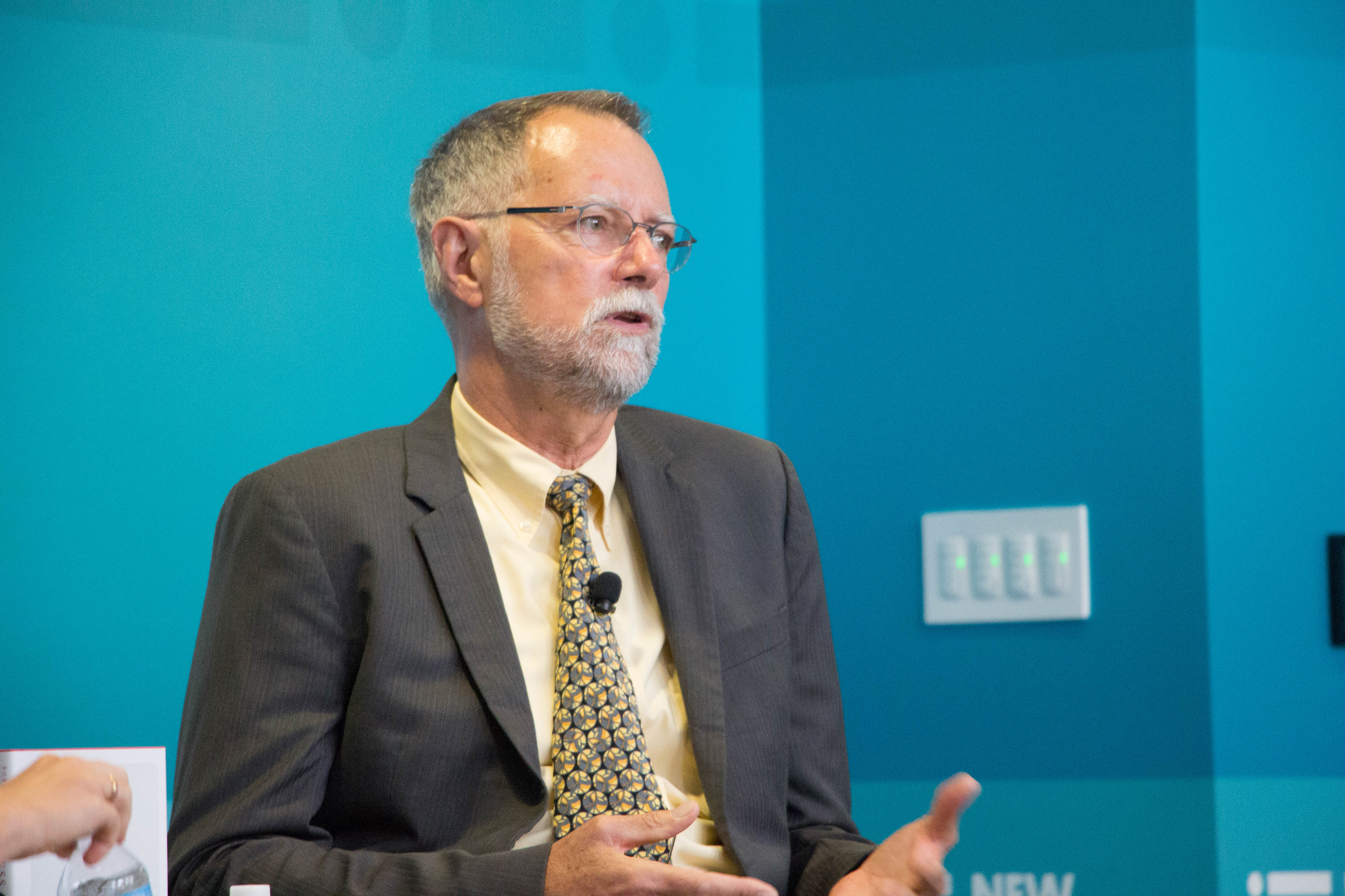 Robert H. Frank, Author, Success and Luck: Good Fortune and the Myth of Meritocracy, Professor of Management and Professor of Economics, Samuel Curtis Johnson Graduate School of Management, Cornell University